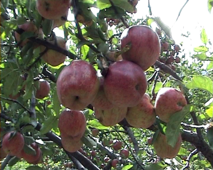 Nepali apple